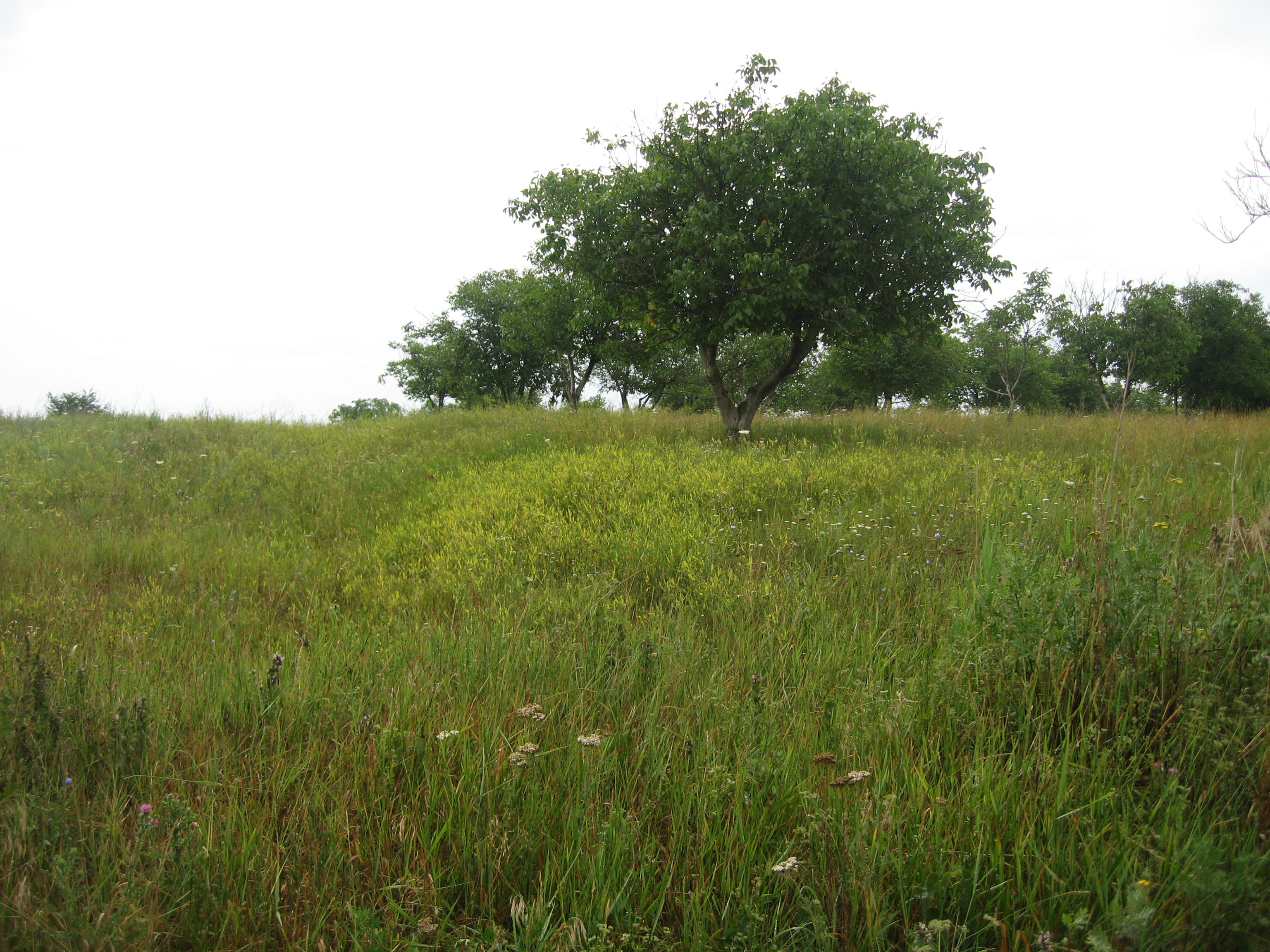 Rezervaţia Valea lui David